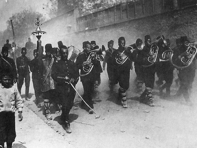 Young Turk revolutionaries entering Istanbul in 1909